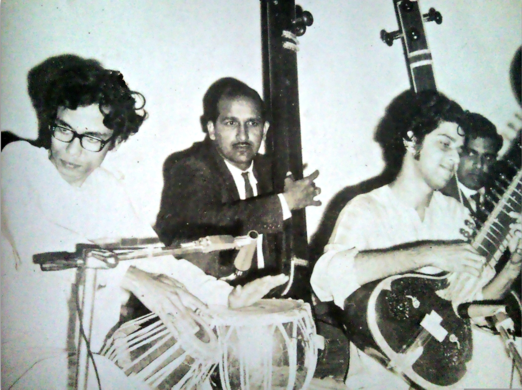 Pandit Shalil Shankar at a concert accompanied by Pandit Chandra Nath Shastri on Tabla, at Jhansi, 1976